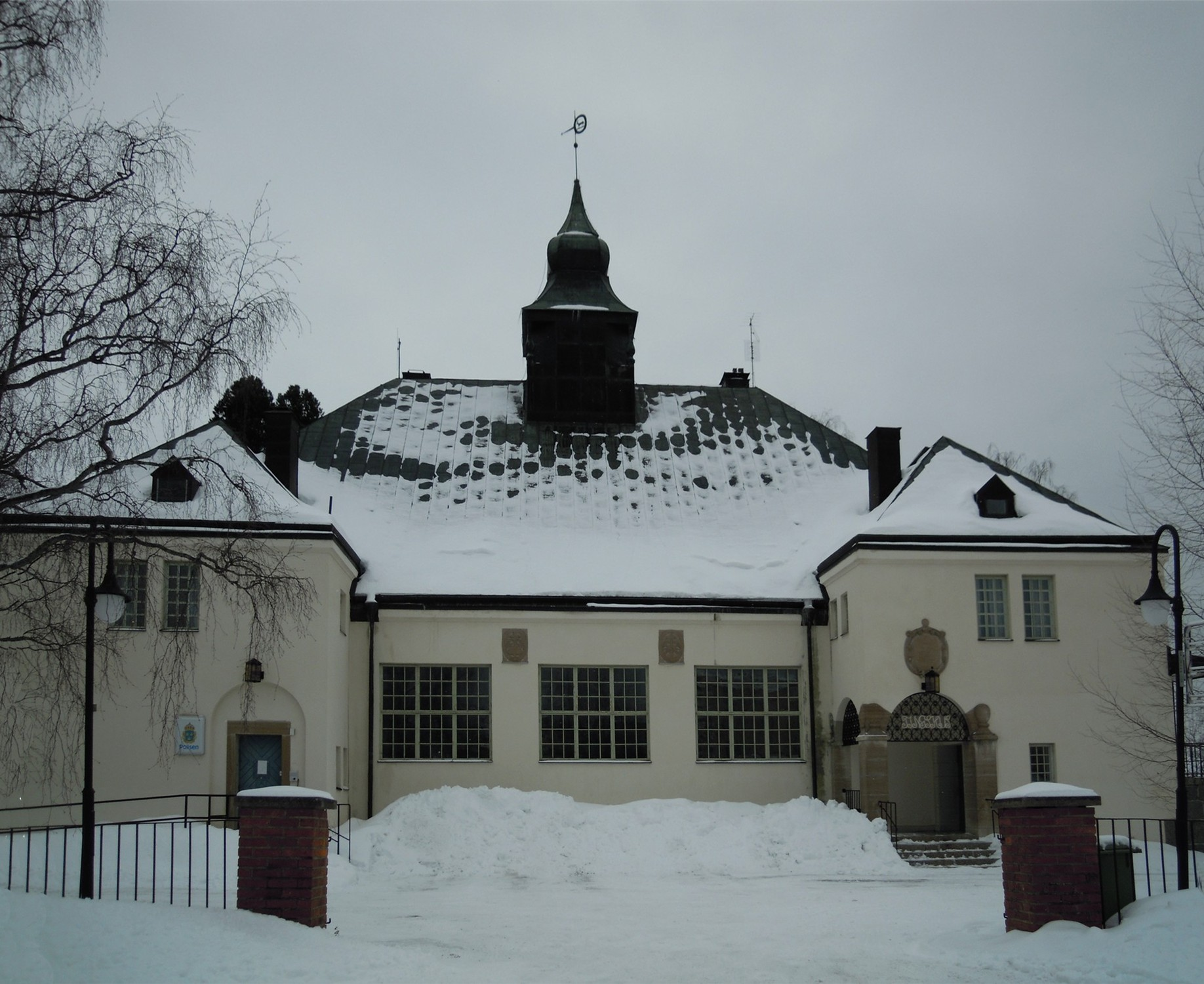 The Courthouse in Strömsund, Jämtland, Sweden, inaugurated in January 1911.